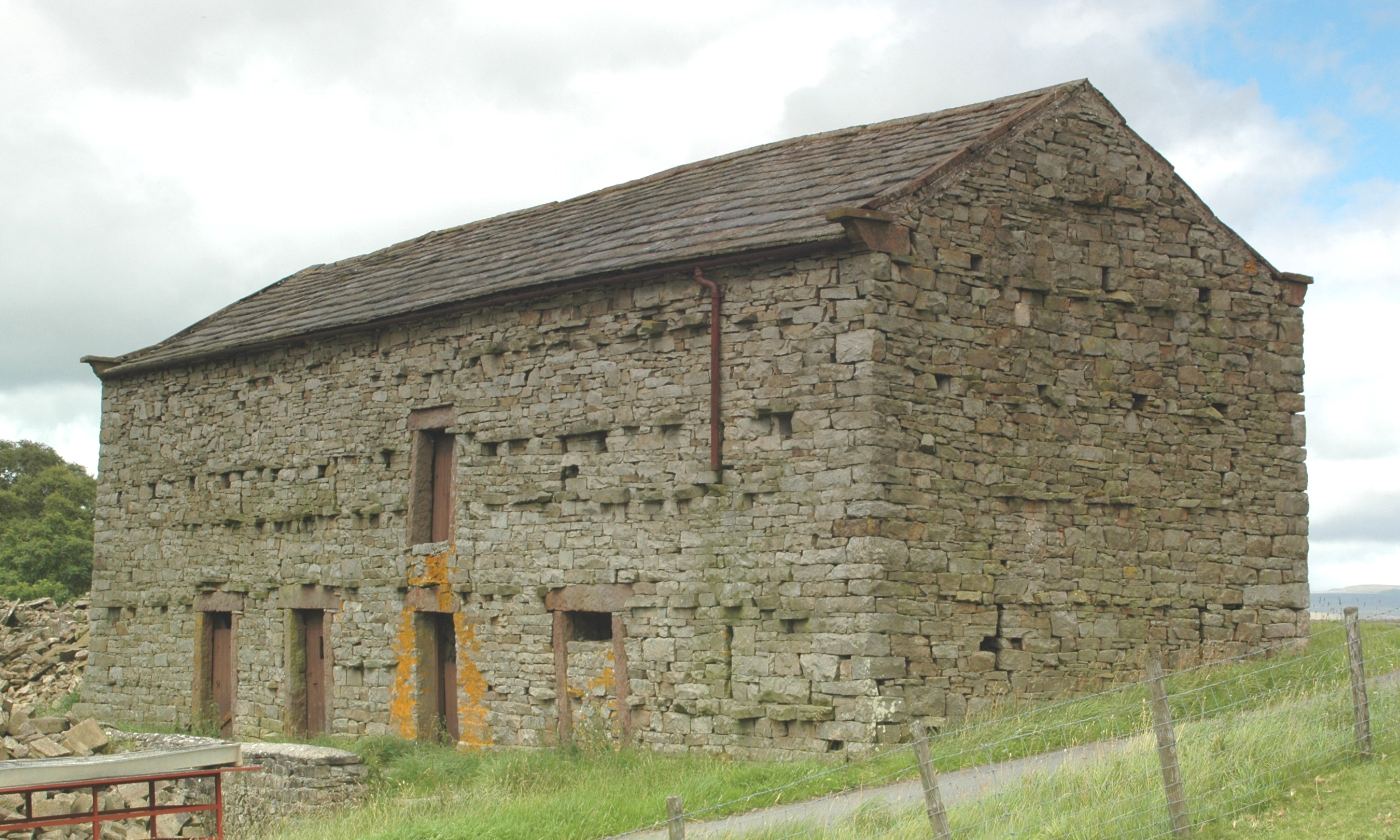 Stone-built bank barn near Barras, Cumbria (formerly Westmorland), England